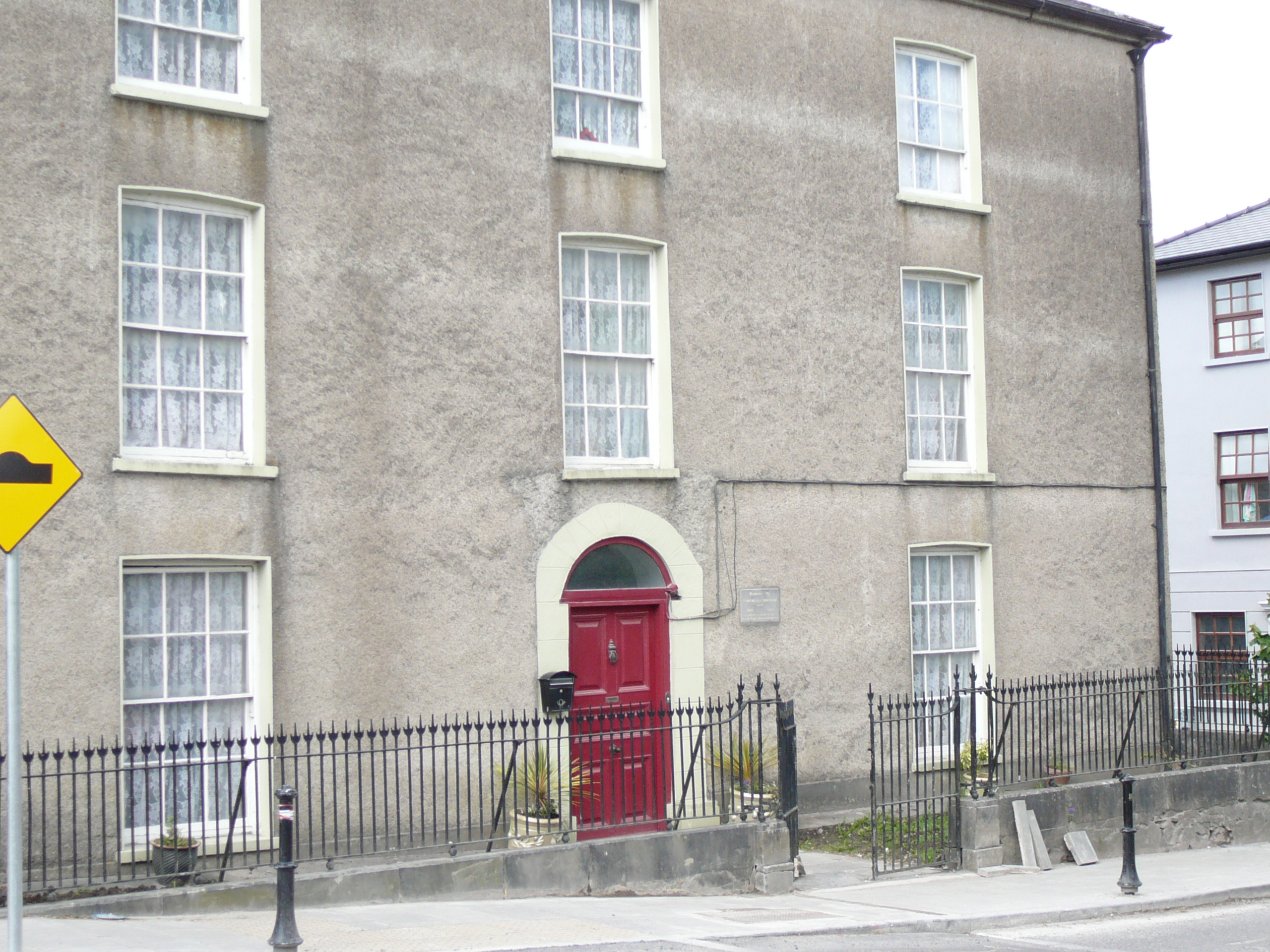 Image of Canon Sheehan's house, Doneraile, co. Cork, Ireland as it was in his lifetime.